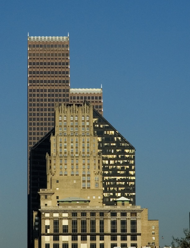 Three Eras of buildings in Houston, Texas - Gulf Oil, 1920s, Pennzoil, 1970s, and Republic Bank, 1980s (by Tom Haymes)